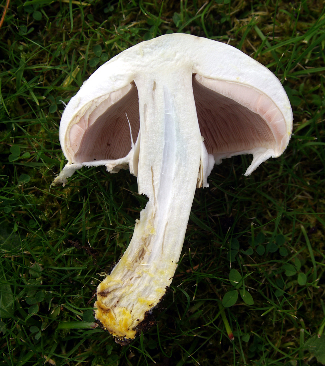 Yellow staining mushroom growing in Wales, November 2011